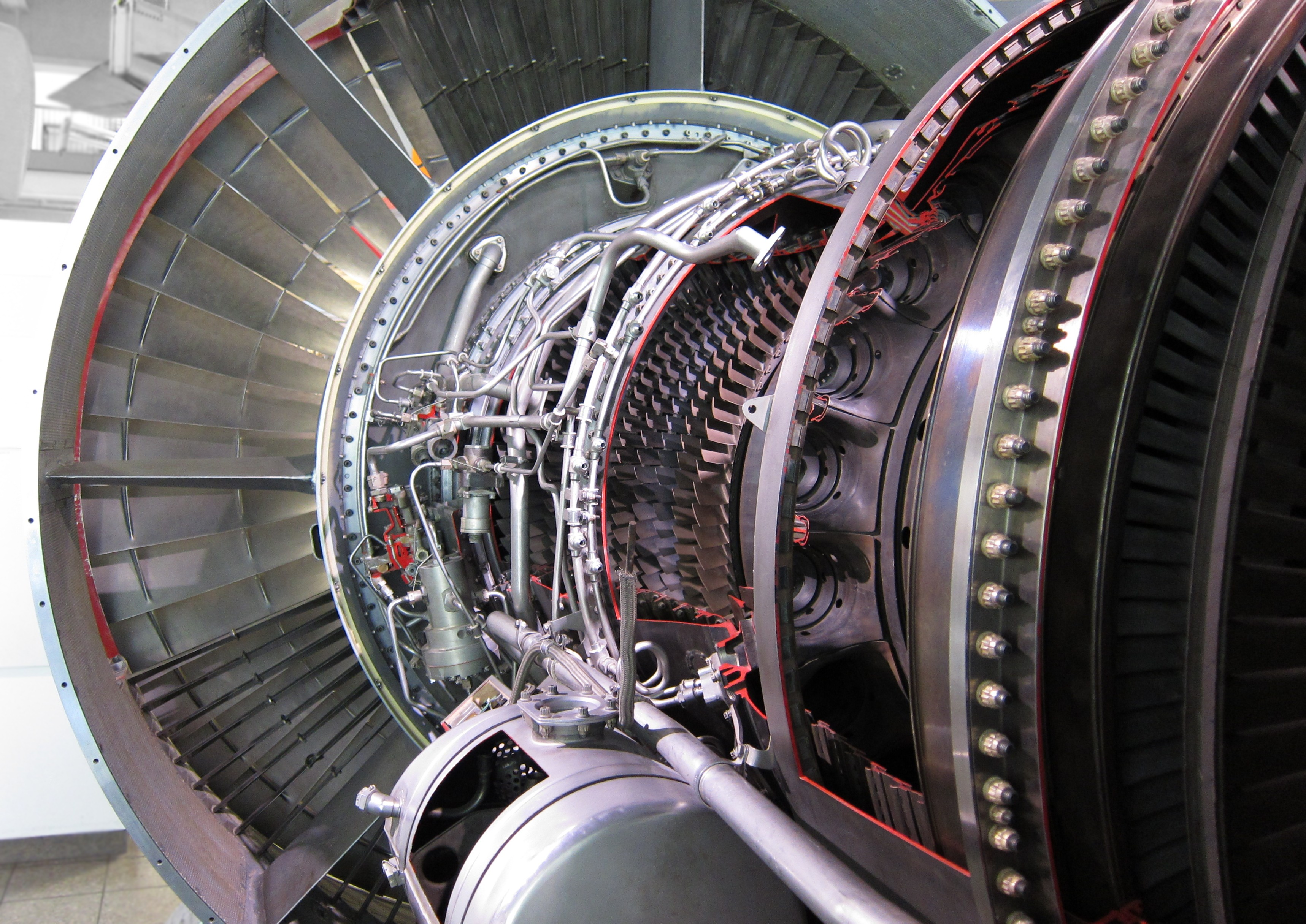 Cutaway of a Pratt & Whitney JT9 -D7 turbofan engine as seen from the rear. The combustion chamber is visible immediately right, and the fan is seen in the background. Previous to its installation at the Deutsches Museum, this engine was installed on a Lufthansa Boeing 747-200.